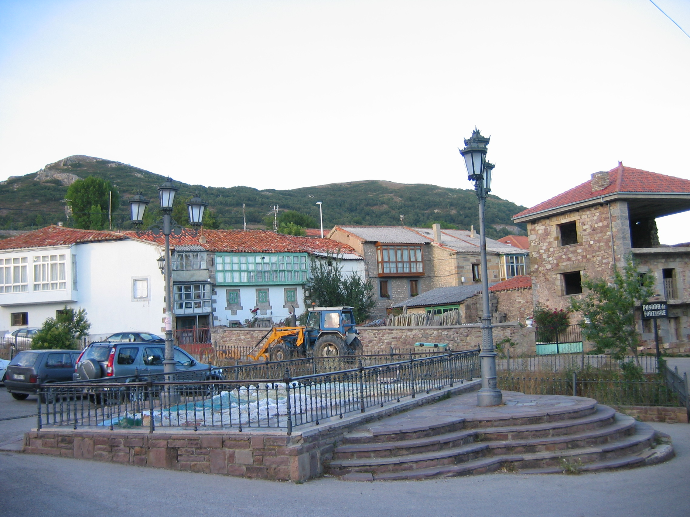 Fontibre village in Cantabria (Northern Spain).